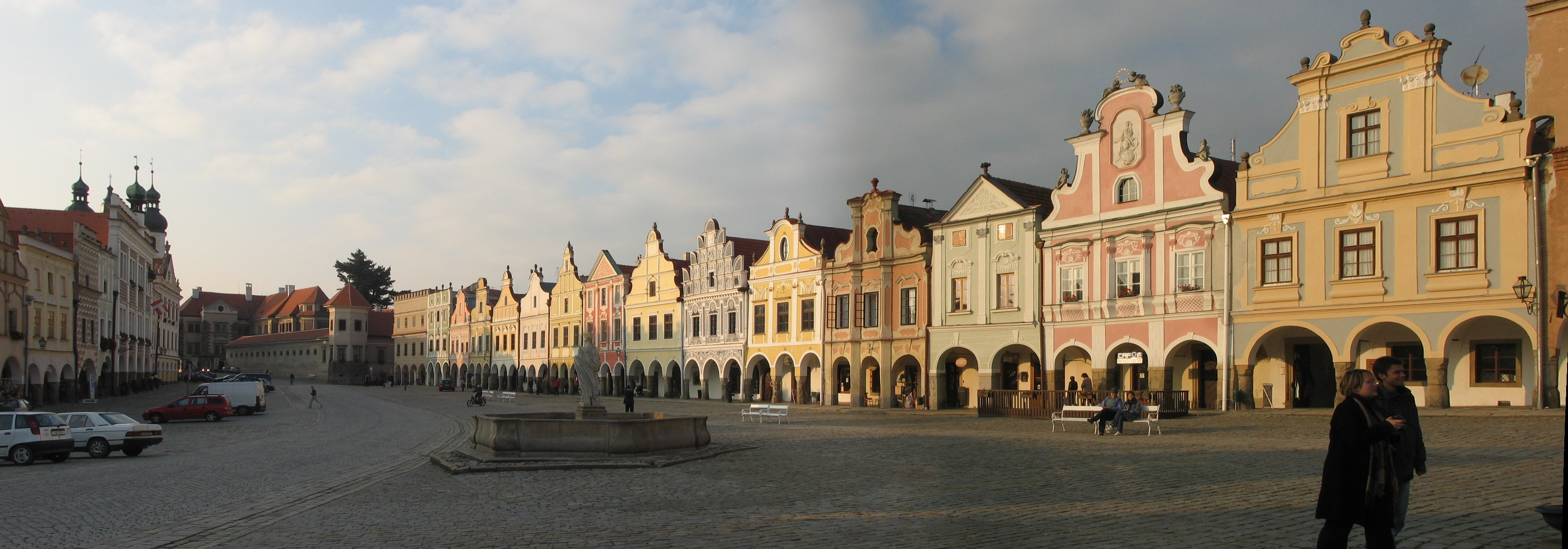 Market Square in city Telč (Czech Republic)